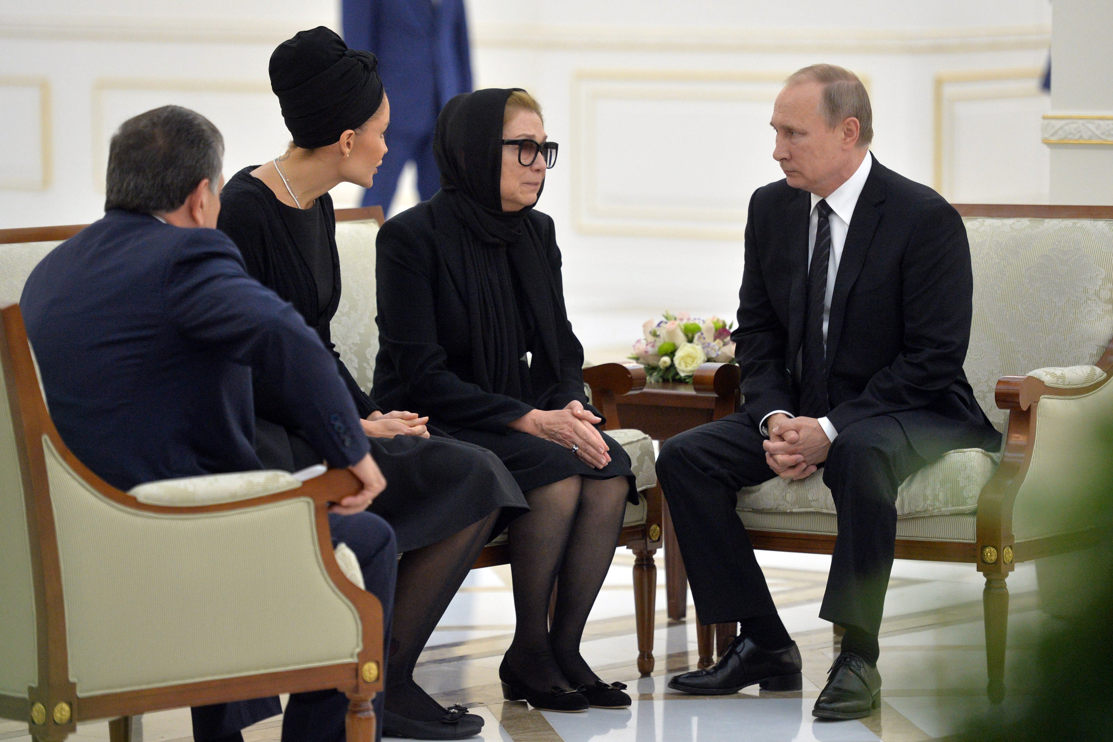 Vladimir Putin with spouse and daughter of I.A.Karimov, Samarkand, September 2016